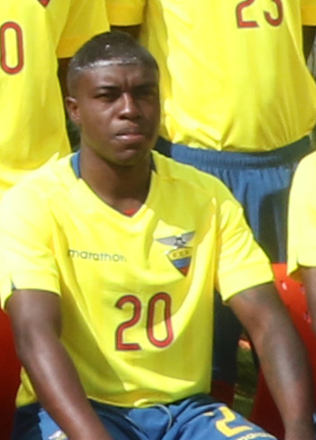 SELECCIÓN DE FÚTBOL SUB 20